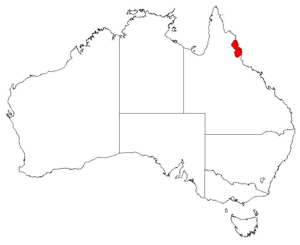 Parsonsia grayana Occurrence data for Australia from Australasian Virtual Herbarium downloaded 22 December 2018